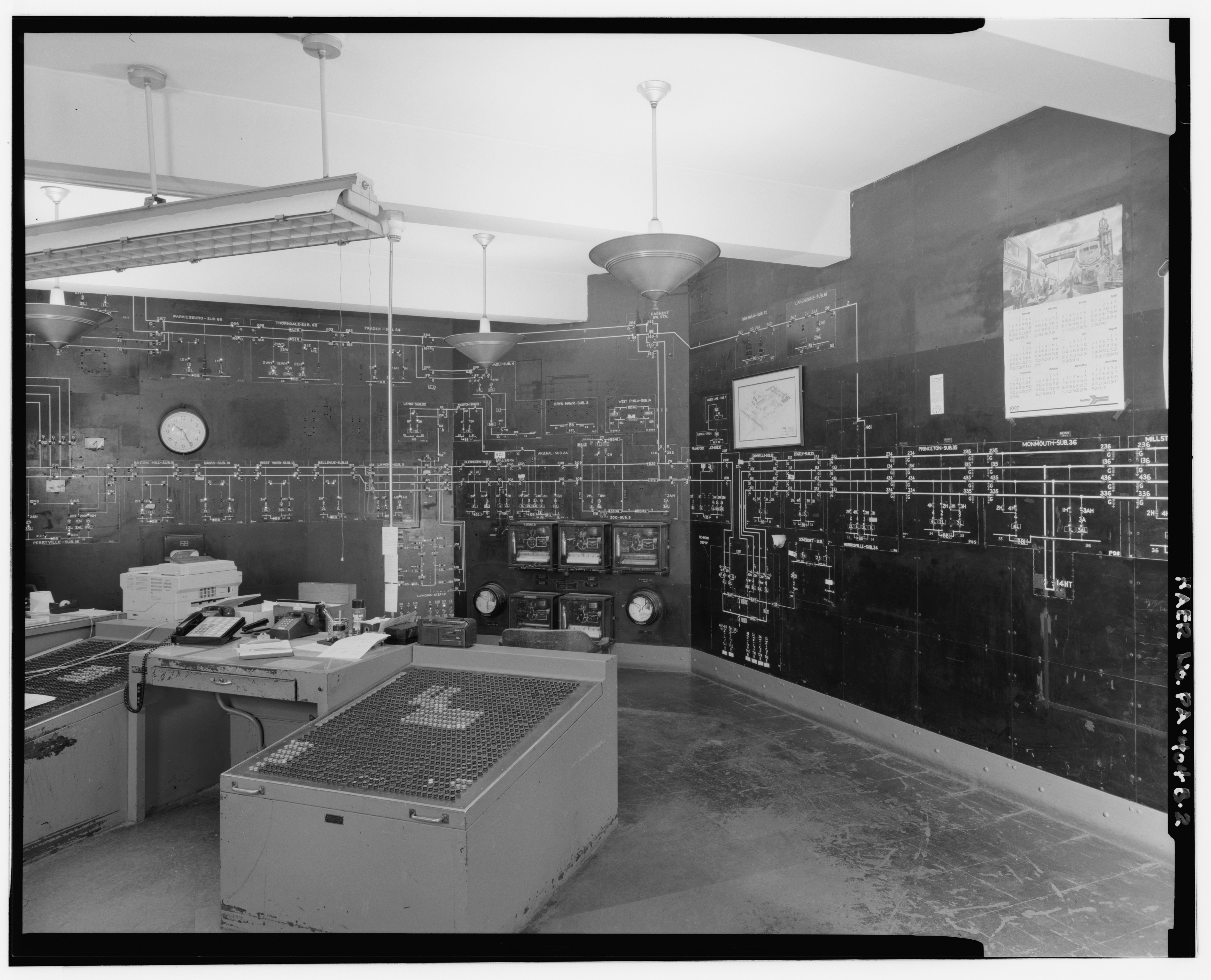 Load Dispatchers Mimic Board at Amtrak Thirtieth Street Station, Philadelphia, Pennsylvania, USA. Installed for the Pennsylvania Railroad in 1935.